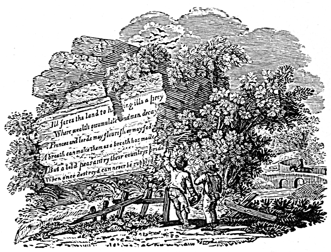 Thomas Bewick's tail-piece illustration of "The mole and her dam", a chapter in his edition of Aesop's Fables. The quotation on the rock is from The Deserted Village by Oliver Goldsmith.